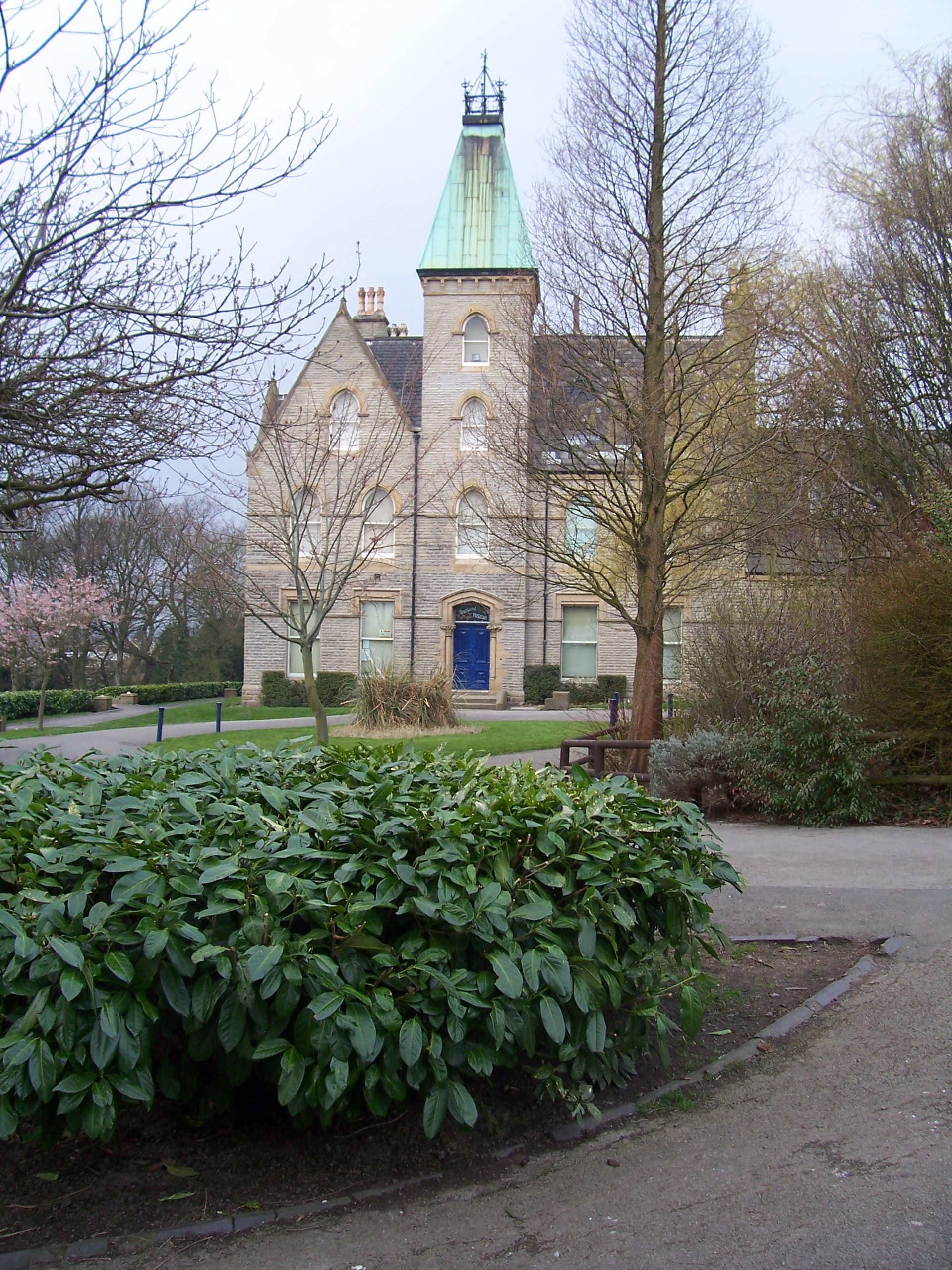 Bagshaw Museum, Wilton Park, Batley. Source: OlderBrother, 2006. Summary Bagshaw Museum, Wilton Park, Batley. Source: OlderBrother, 2006.